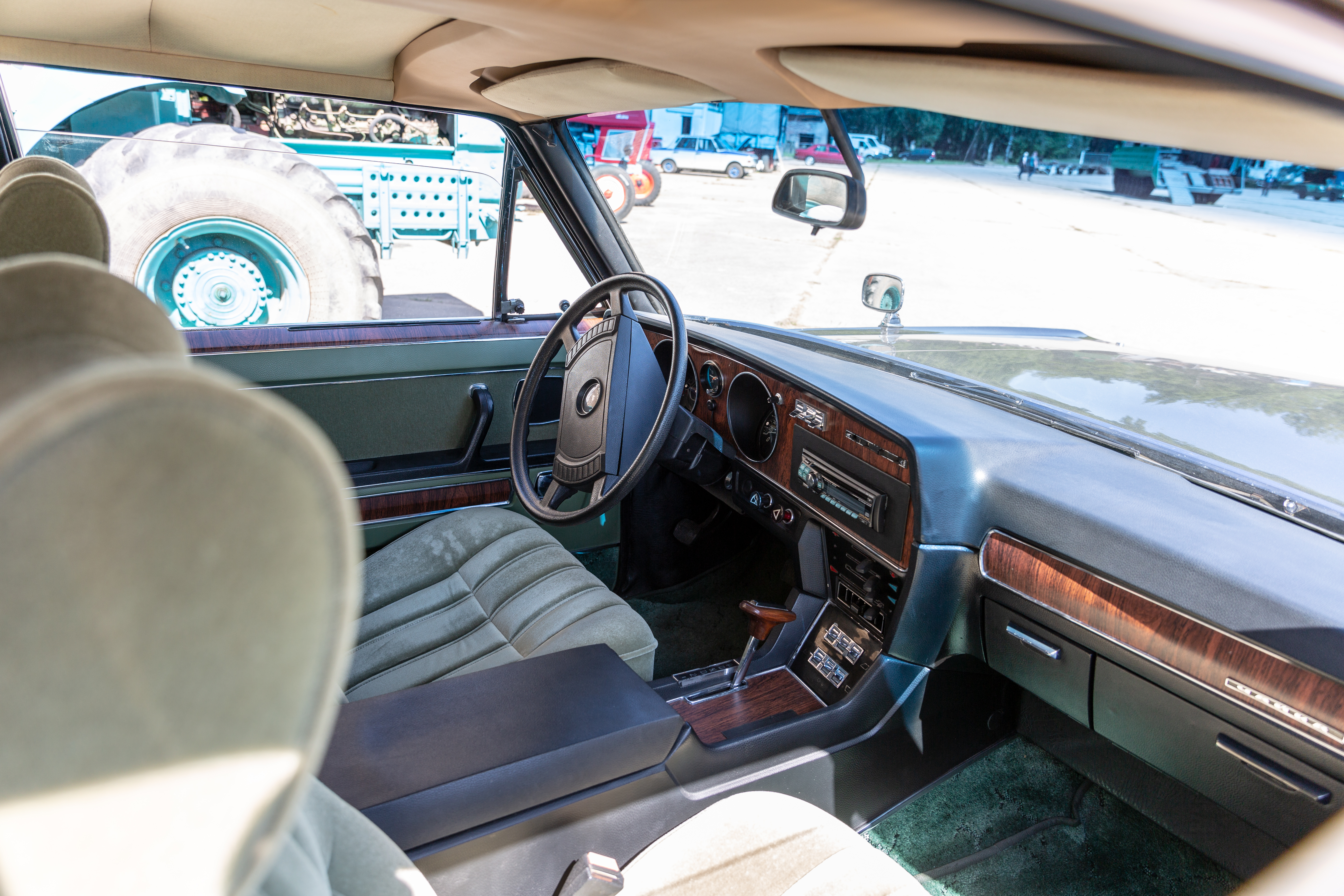 Pfingsttreffen Pütnitz 2018